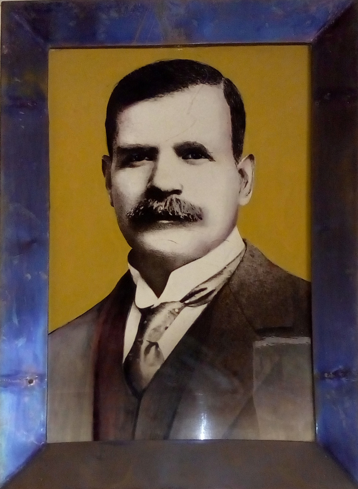 Cecil Ernest Claude Fischer, who was an officer posted to Forest Service in the erstwhile Madras Presidency. During his service, he made extensive collections from the Nilgiris, Palanis and Coimbatore Forest Divisions of Tamil Nadu and Seshachalam Hills and Ganjam District of Andhra Pradesh. The original collections from all these areas were sent to the Indian Botanic Gardens, Kolkatta. Duplicate specimens of most of the Fischer's collections are deposited in the Fischer Herbarium. IMG 20180620 113201603